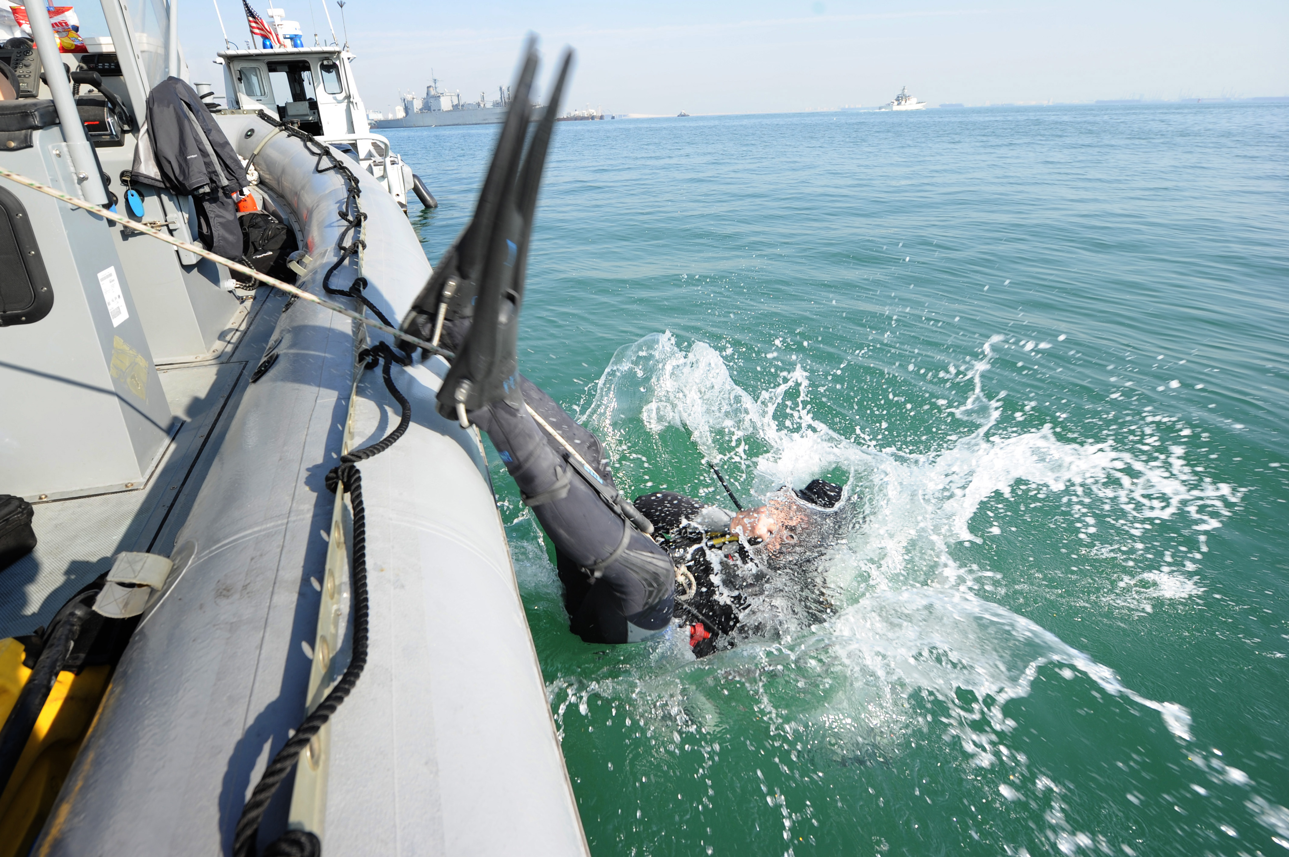 MANAMA, Bahrain (Nov. 30, 2010) Navy Diver 1st Class Jason Peters, assigned to Mobile Diving and Salvage Unit (MDSU) 2, conducts an anti-terrorism and force protection dive. MDSU-2 is deployed as part of Combined Task Group 56.1 supporting maritime security operations and theater security cooperation efforts in the U.S. 5th Fleet area of responsibility. (U.S. Navy photo by Mass Communication Specialist 2nd Class Justin E. Stumberg/Released)